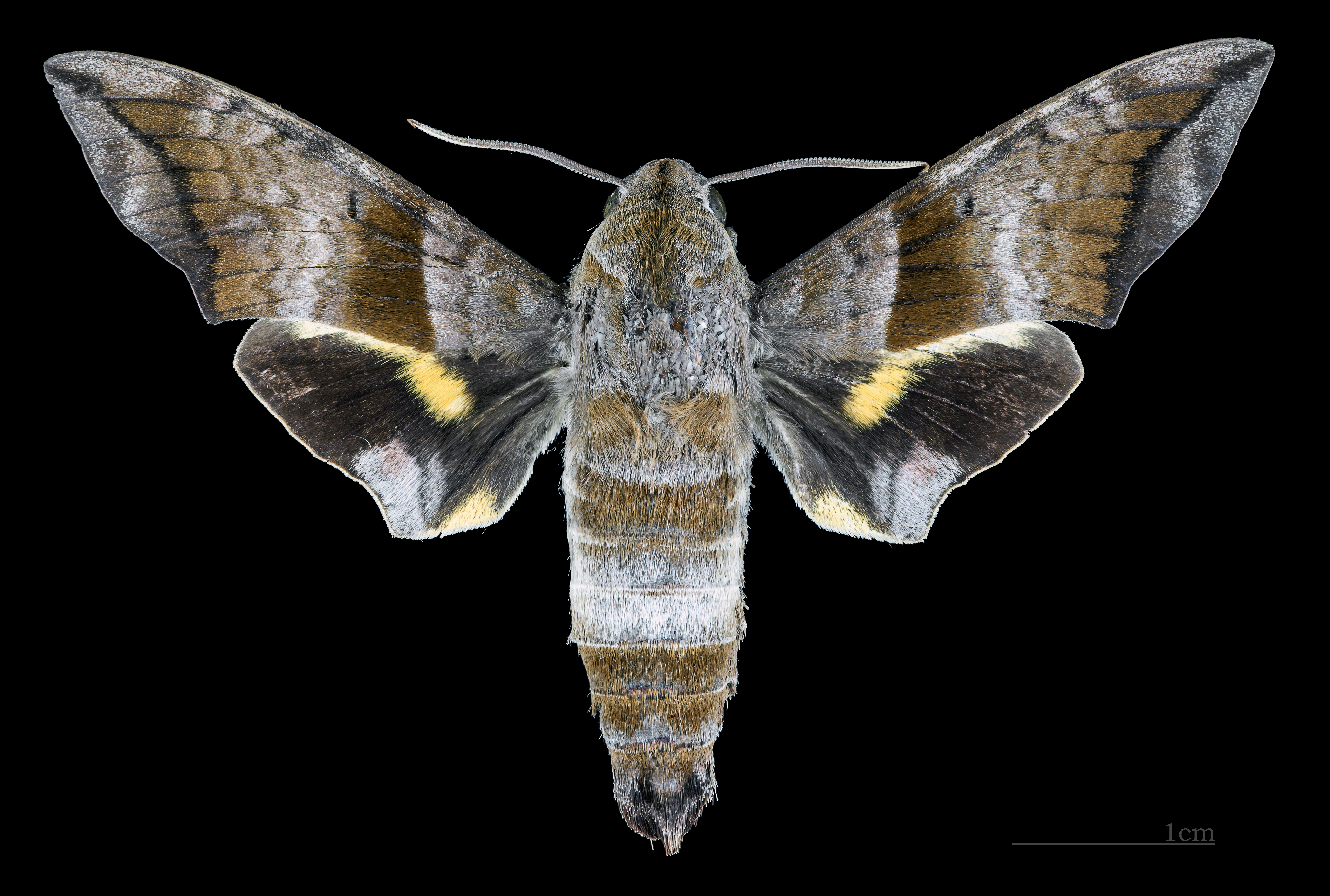 Perigonia lusca - Dorsal side